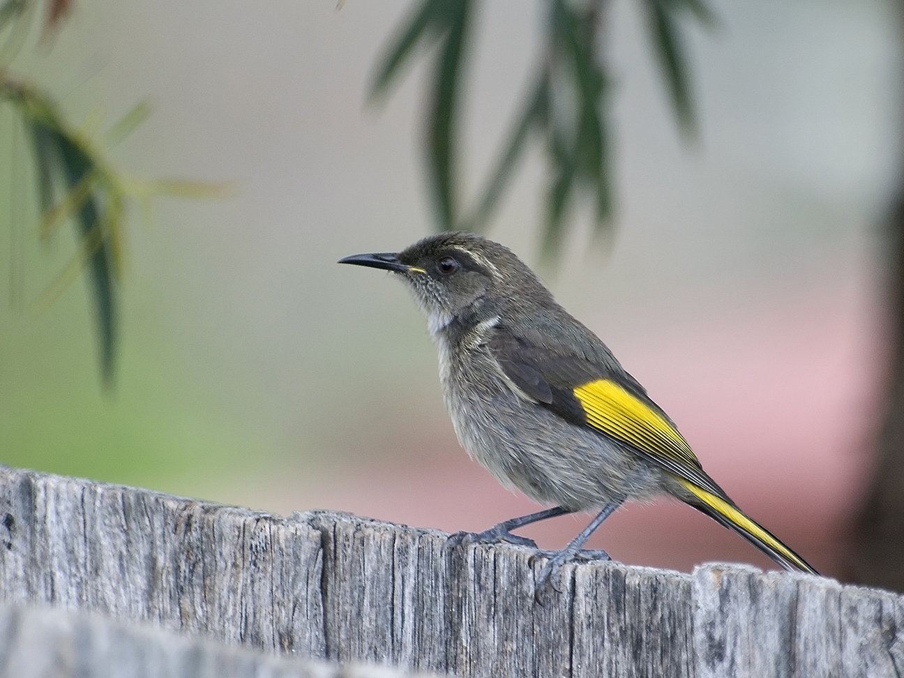 A male crescent honeyeater (Phylidonyris pyrrhopterus) in Lindisfarne, Tasmania, Australia